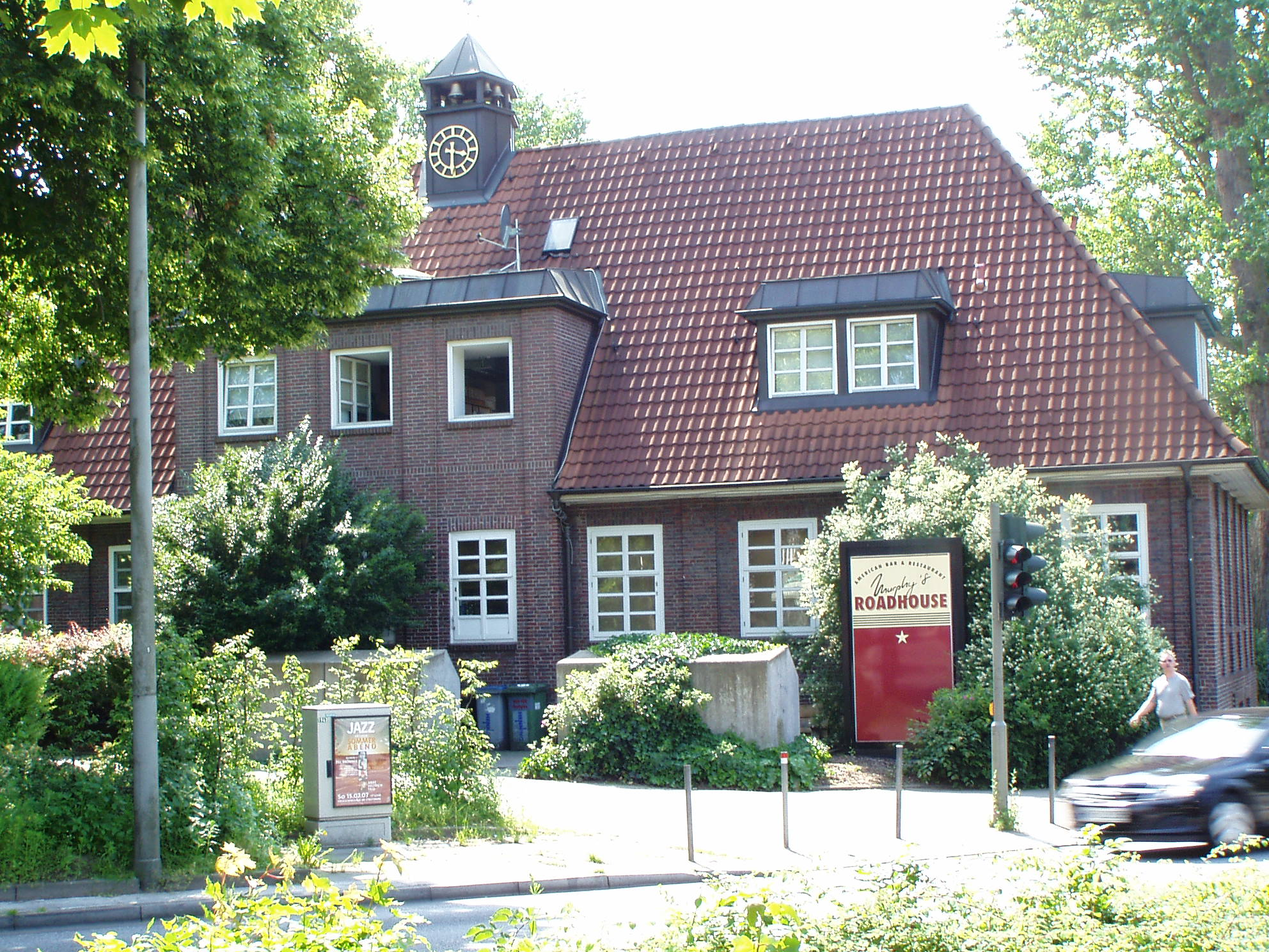 Former cityhall of Hamburg-Sasel (Germany)